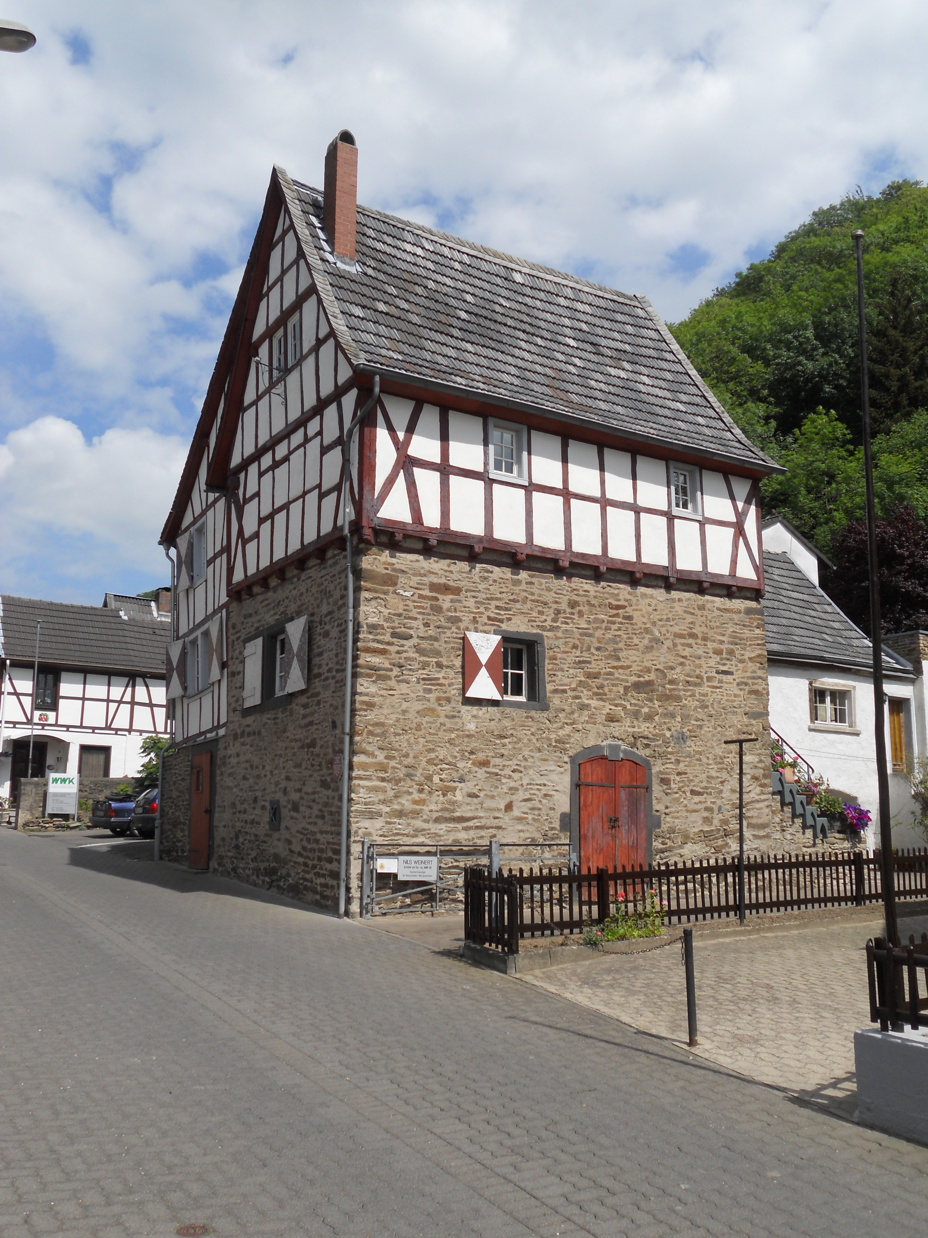 A 16th centurt Zehnthof, where taxes were gathered. Hammerstein am Rhein, Germany